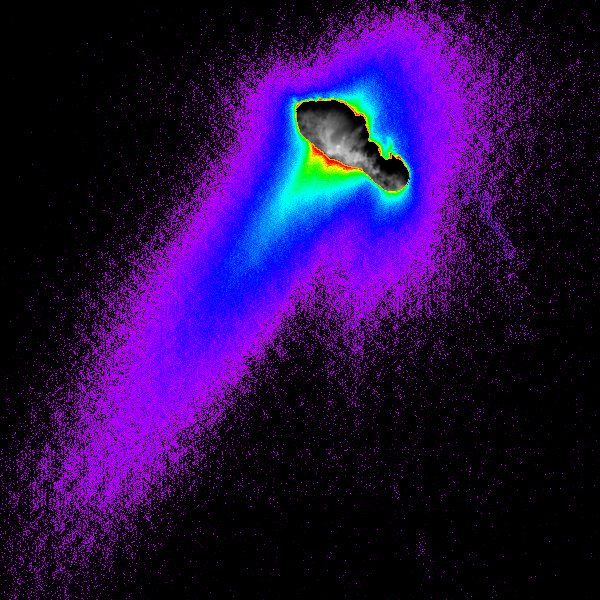 A composite of images from NASA's Deep Space 1 spacecraft shows features of comet Borrelly's nucleus, dust jets escaping the nucleus and the cloud-like "coma" of dust and gases surrounding the nucleus. False color is used to reveal details of the jets and coma. The images were taken when Deep Space 1 was about 4,800 kilometers (3,000 miles) from Borrelly during a Sept. 22, 2001, flyby. Borrelly's nucleus is about 8 kilometers (5 miles) from end to end, so the field of view is about 40 kilometers (25 miles) across. The Sun shines from the bottom of the image. The main dust jet, seen extending toward the bottom left, heads away from the comet in a direction that is about 30 degrees off the direction straight toward the Sun from the comet. The colors show about three orders of magnitude in the brightness of the dust jets and coma. Red indicates about one-tenth the brightness as the brightness of the nucleus, blue one-one-hundredth, purple one-one-thousandth. The red bumps near the nucleus indicate where the jet resolves into three distinct, narrow jets, which likely come from discrete source points on the surface. Deep Space 1 completed its primary mission testing ion propulsion and 11 other advanced, high-risk technologies in September 1999. NASA extended the mission, taking advantage of the ion propulsion and other systems to undertake this encounter with the comet. More information can be found on the Deep Space 1 home page. Deep Space 1 was launched Oct. 24, 1998, as part of NASA's New Millennium Program, which is managed by JPL for NASA's Office of Space Science, Washington, D.C. The California Institute of Technology manages JPL for NASA.